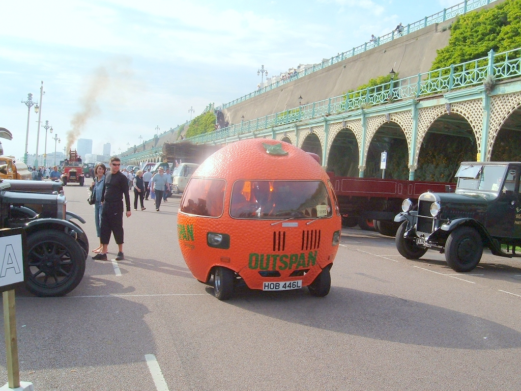 Outspan (fruit company) had three of these built in 1972, with bits from a Mini.